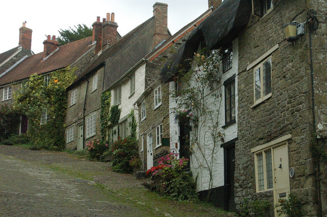 Looking up Gold Hill for a change Dvorak, Grimethorpe Colliery Brass Band, Hovis & this place. Who could resist such a lethal combination. Just how many thought the advert location was in Yorkshire?